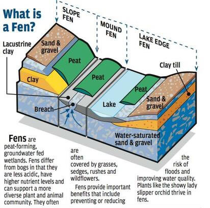 An illustrated diagram of a fen.